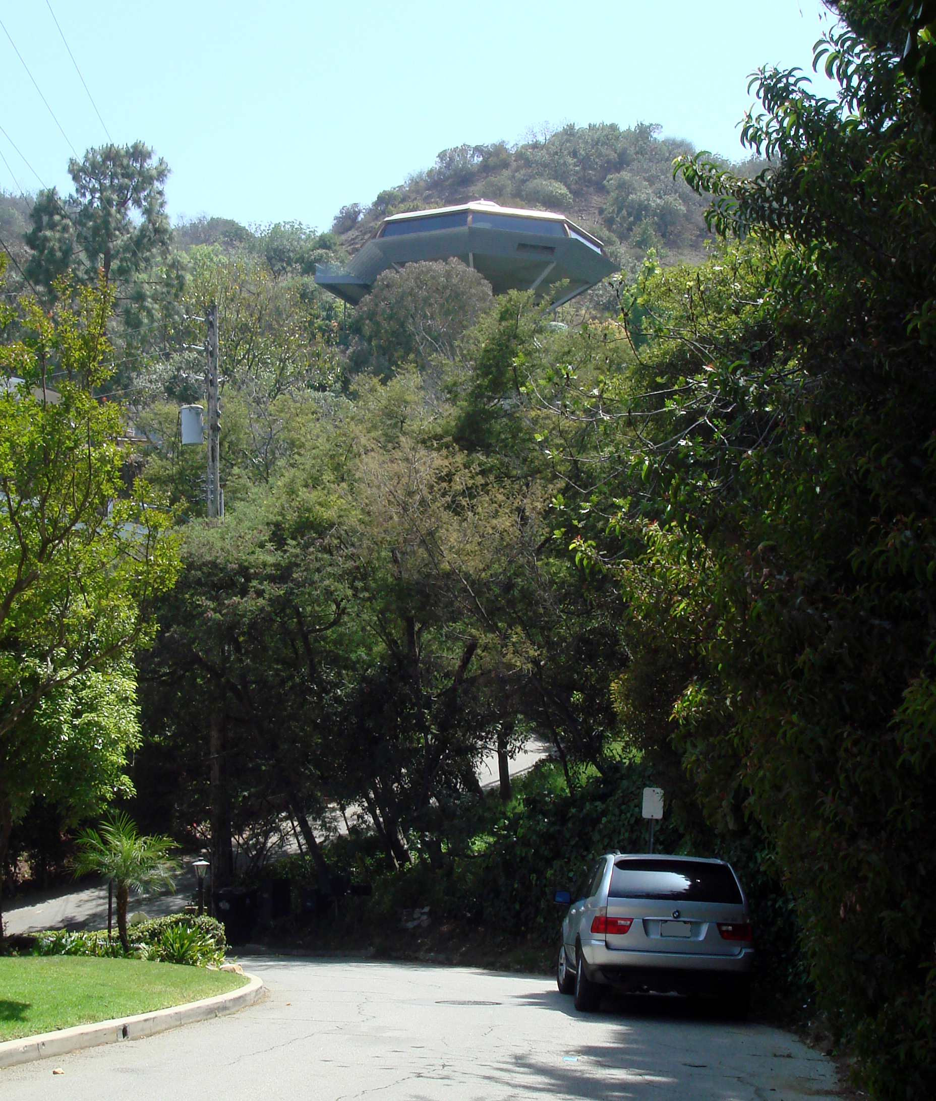 The Chemosphere house, in the hills above Los Angeles, California. This is taken at the street level; the driveway comes down the hill and is visible at the bottom of the photo.